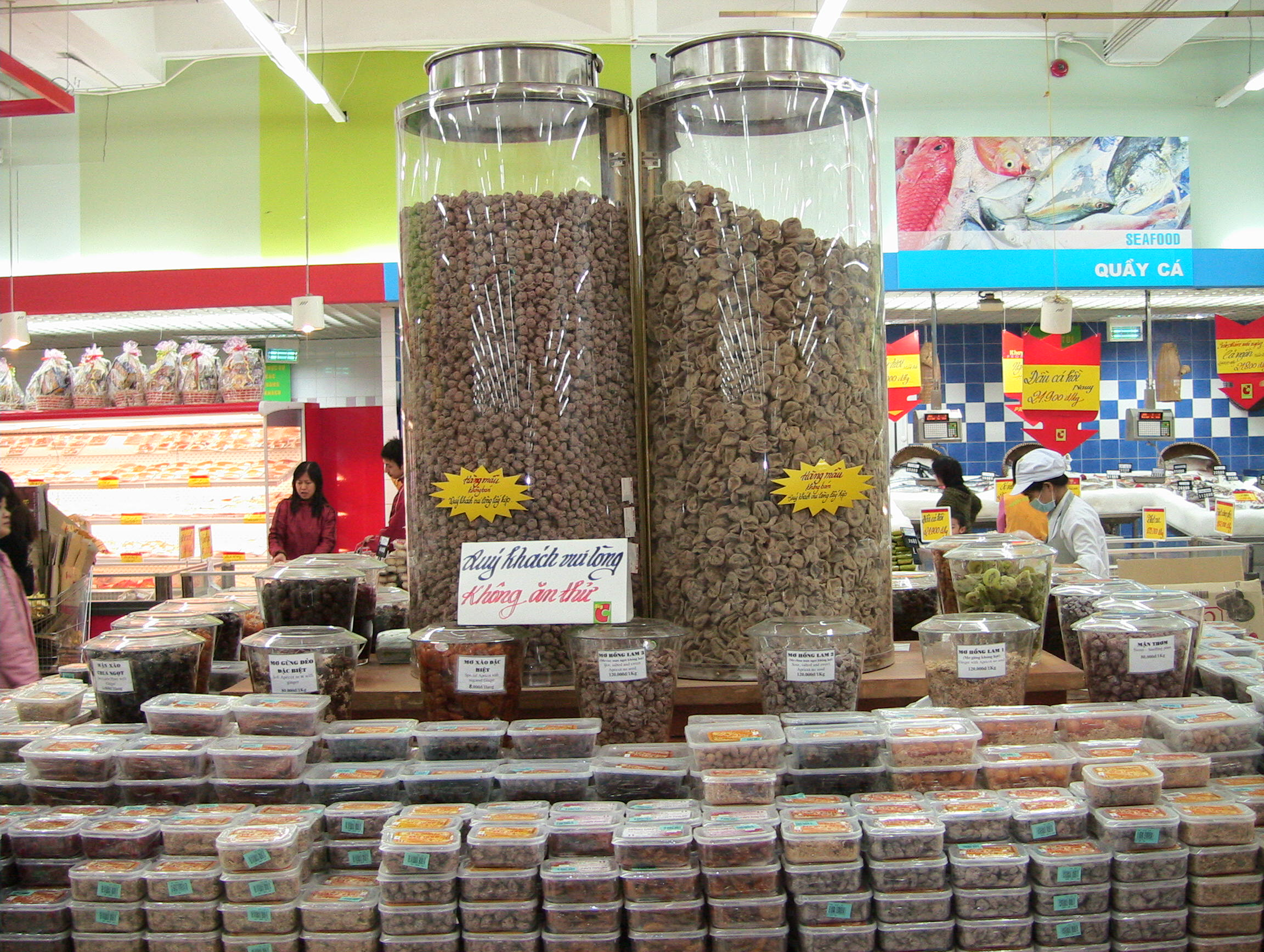 Ô mai on sale in a supermarket, Hanoi, Vietnam.